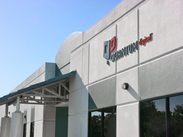 Exterior photo of QuantumDigital, Inc. corporate headquarters. (photo by Eric Welch, a.k.a. Vashnyra, official photographer for QuantumDigital, Inc.)